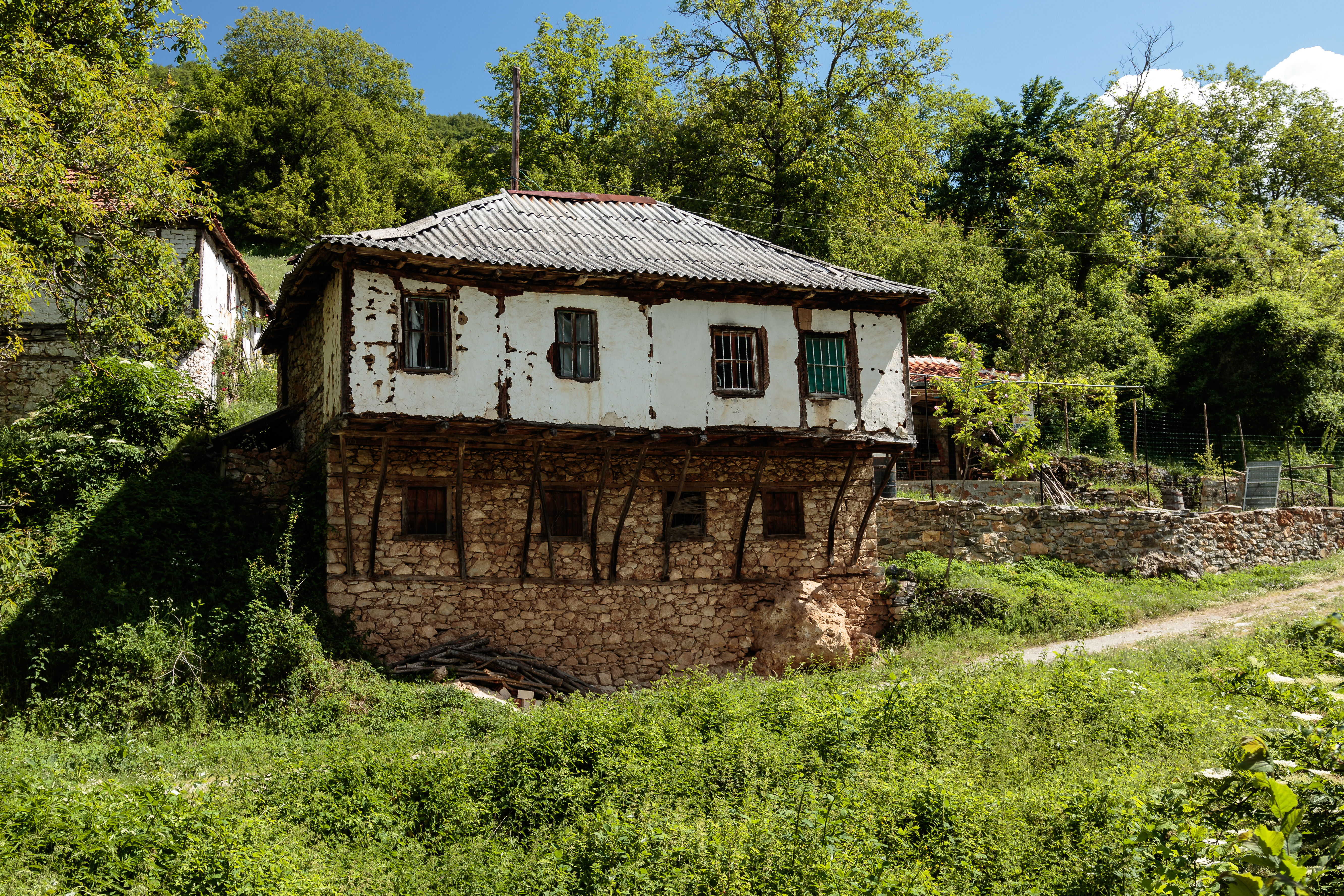 House in the village Golemo Ilino